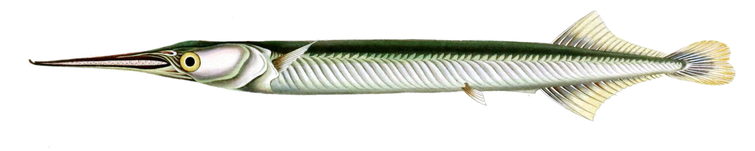 Xenentodon cancila (Hamilton, 1822)